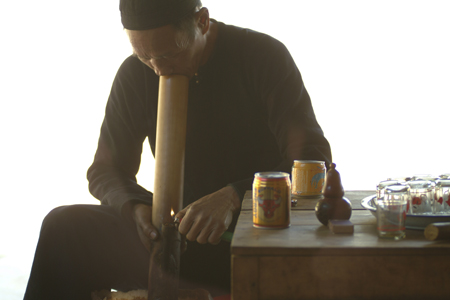 Smoking pure Vietnamese tobacco with a bamboo bong, Lai Chau, Vietnam.